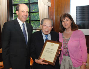 Shigeaki Hinohara, Chairman of the St. Luke's International Medical Center, met John Roos, Ambassador to Japan, and his wife at the Ambassador's Residence in Tokyo on May 15, 2013.